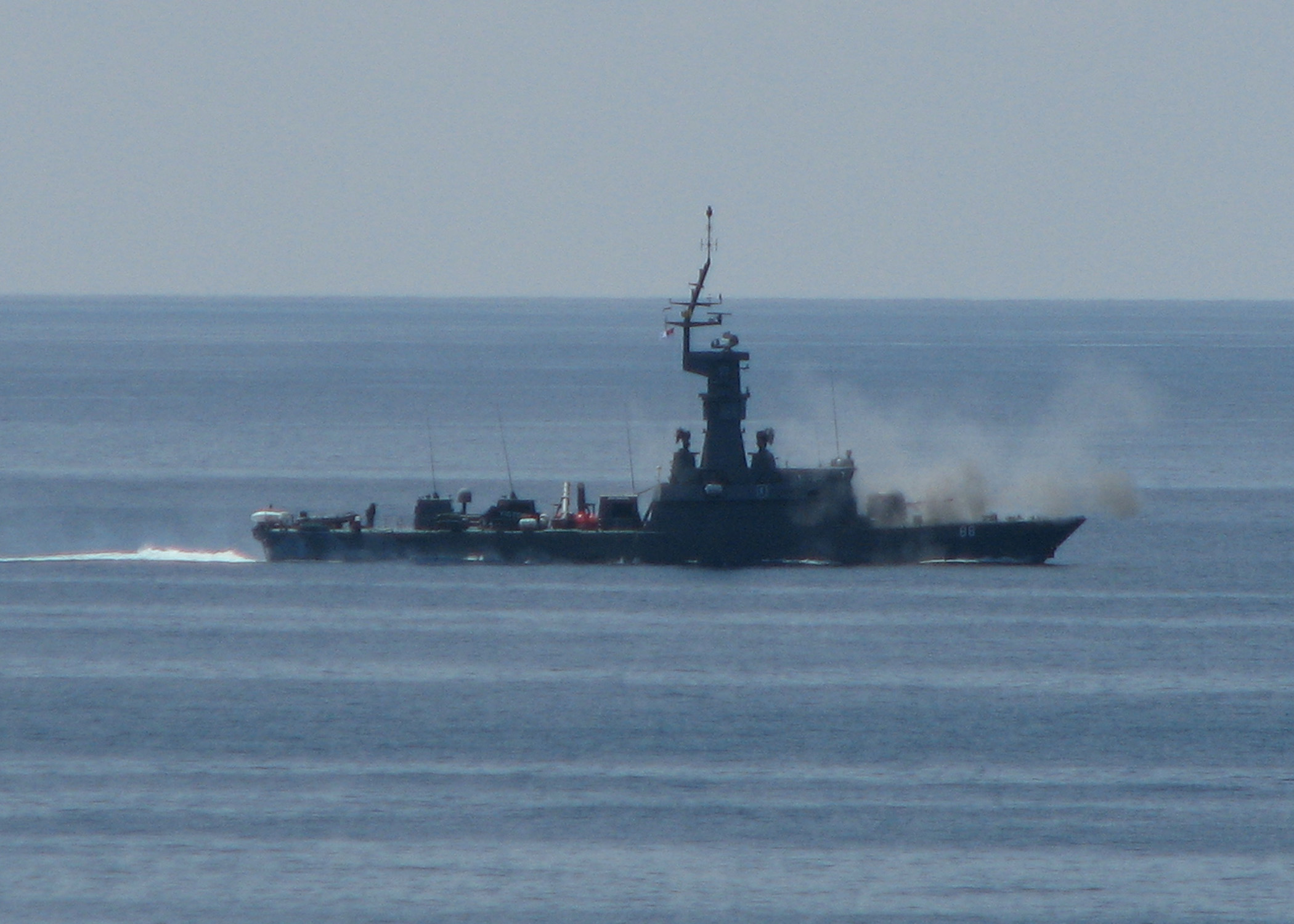 The Republic of Singapore Navy corvette RSS Victory (88) fires its 76mm gun at a surface target during a gunnery exercise with the U.S. Navy as part of Cooperation Afloat Readiness and Training (CARAT), a series of bilateral exercises held annually in Southeast Asia to strengthen relationships and enhance the operational readiness of the participating forces. (U.S. Navy photo by Lt. Ed Early/Released)